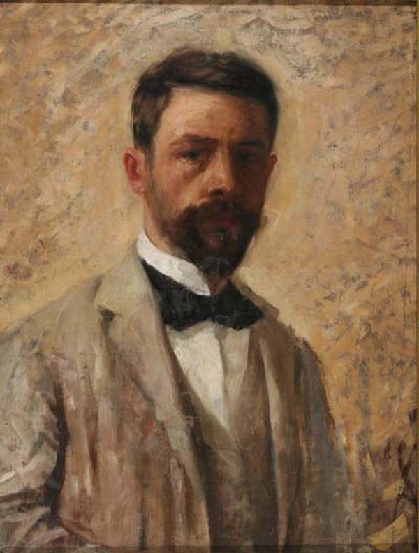 Zachary Zhelev, Self Portrait 1898 (68 x 50.5)